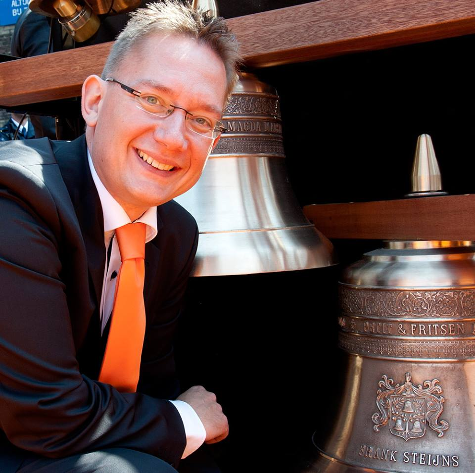 Frank Steijns with his moving carillon